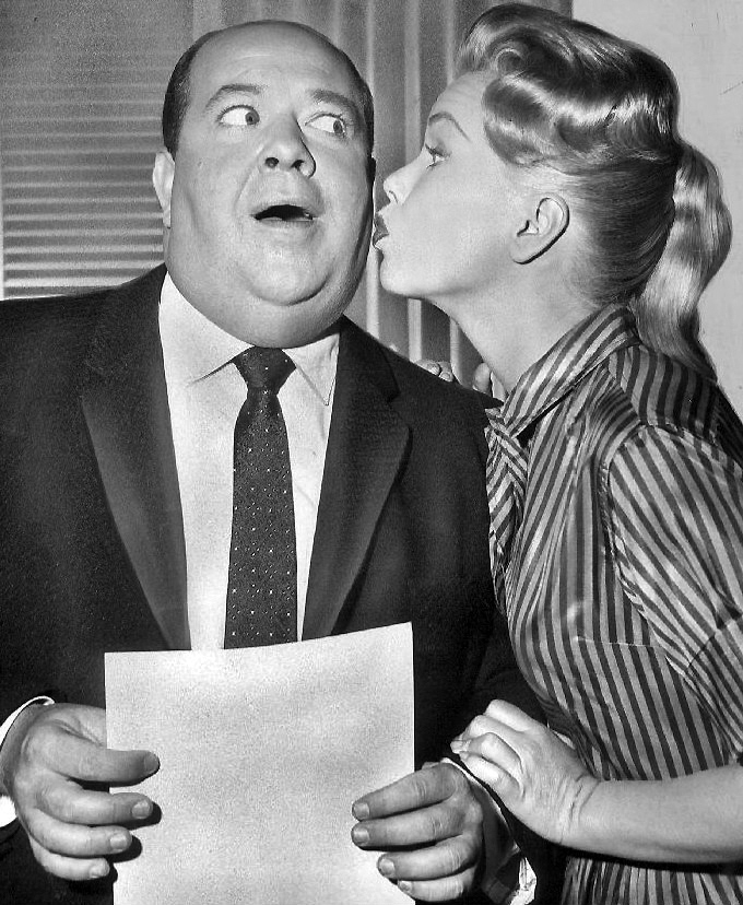 Publicity photo from the television show My Sister Eileen. Pictured are Stubby Kaye and Shirley Bonne.